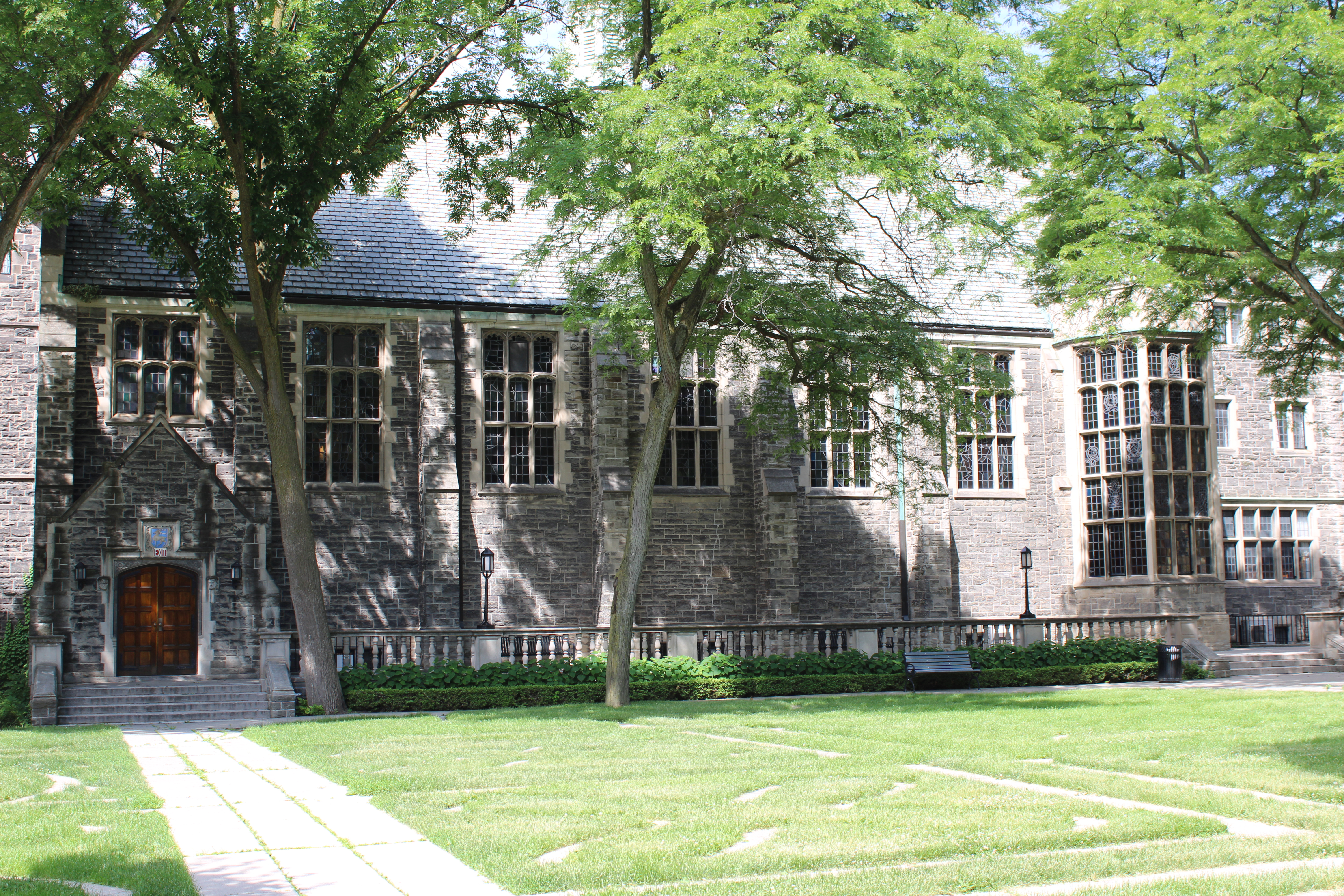 An exterior view of Trinity College's dining hall, taken from the quad